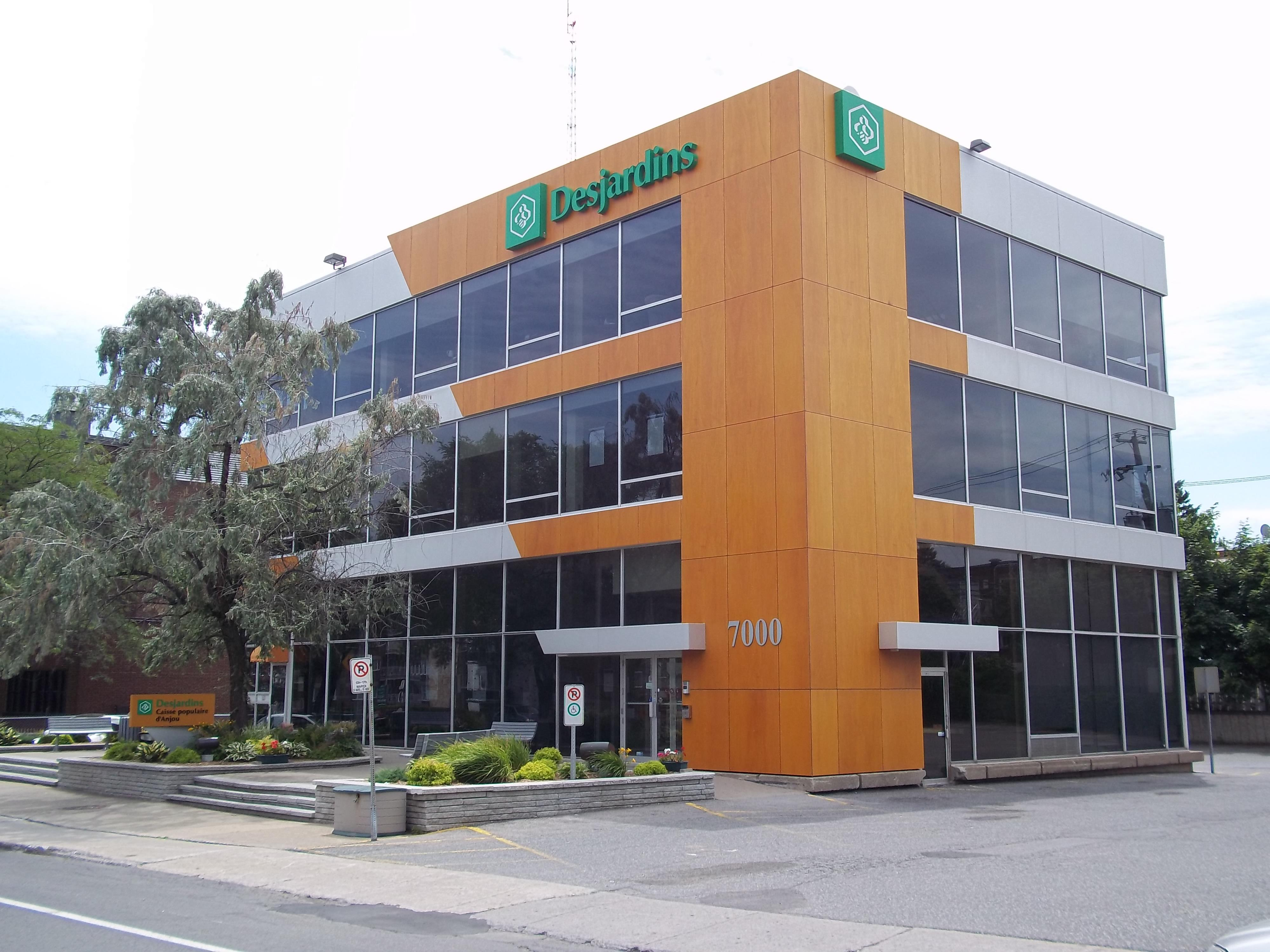 Caisse populaire d'Anjou, located at 7000 Joseph-Renaud Boulevard in Ville d'Anjou (Montreal).